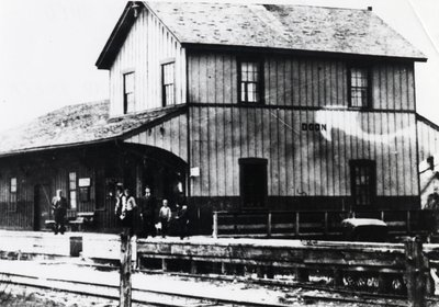 Doon, Ontario railway station and freight shed